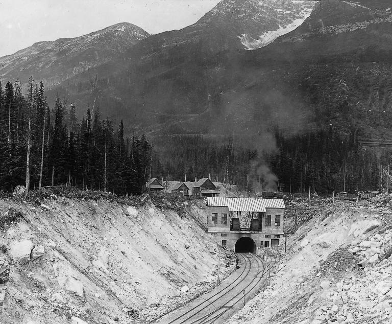 Canadian Pacific Railway's Connaught Tunnel, BC, (west portal), about 1918 Anonyme - Anonymous About 1918, 20th century Silver salts on glass - Gelatin dry plate process 8 x 10 cm